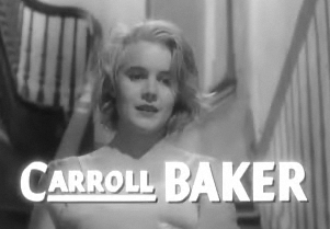 Cropped screenshot of Carroll Baker from the film Baby Doll